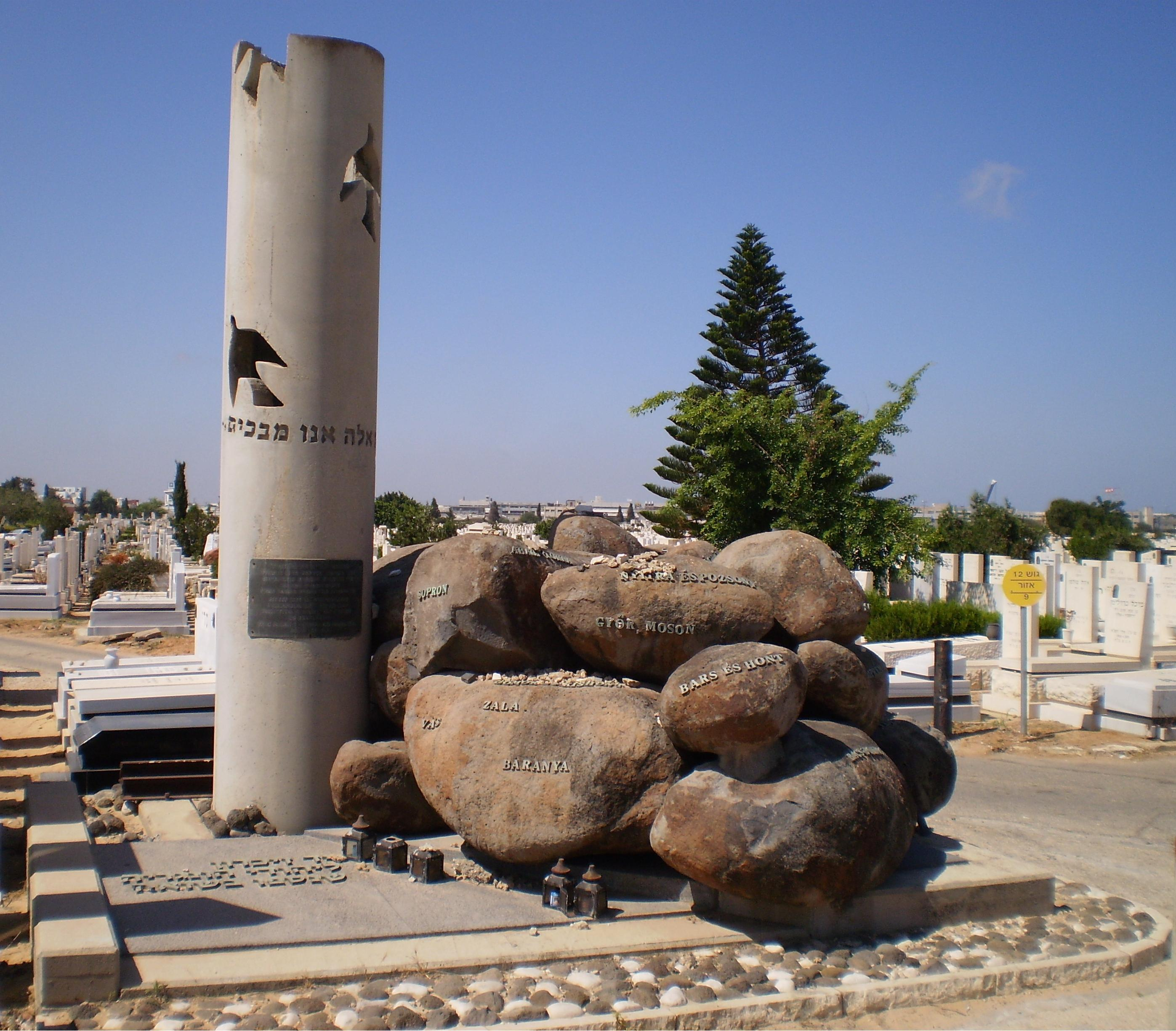 Hungarian Jewery Holocaust memorial at Holon Cemetery (by Zvi Roze)